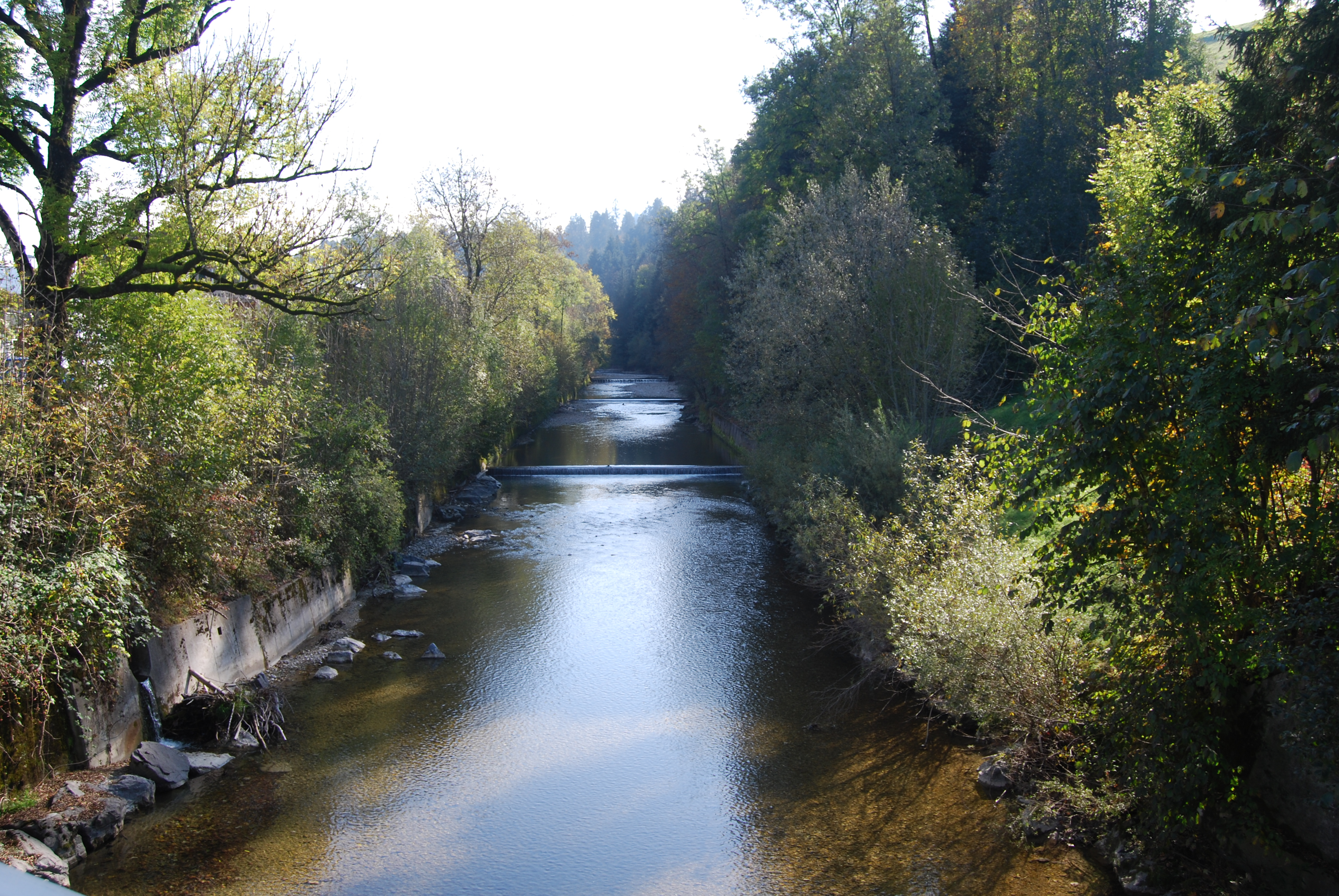 Ilfis at Langnau im Emmental, canton of Bern, SwitzerlandEsperanto: Ilfis en Langnau en Emme-Valo, Kantono Berno, Svislando